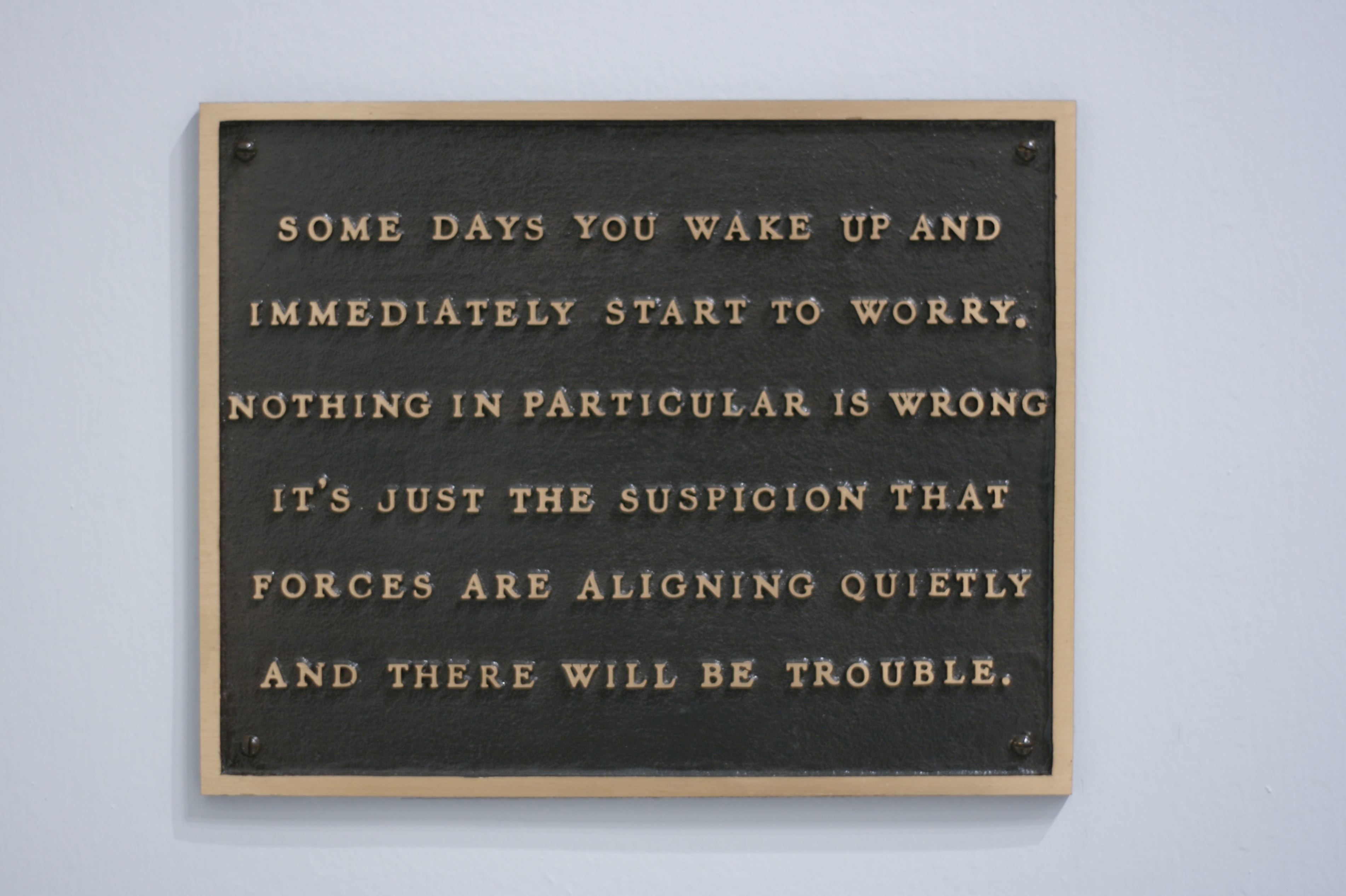 This sign, in the collection of MoMA, features text from Holzer's LIVING series.